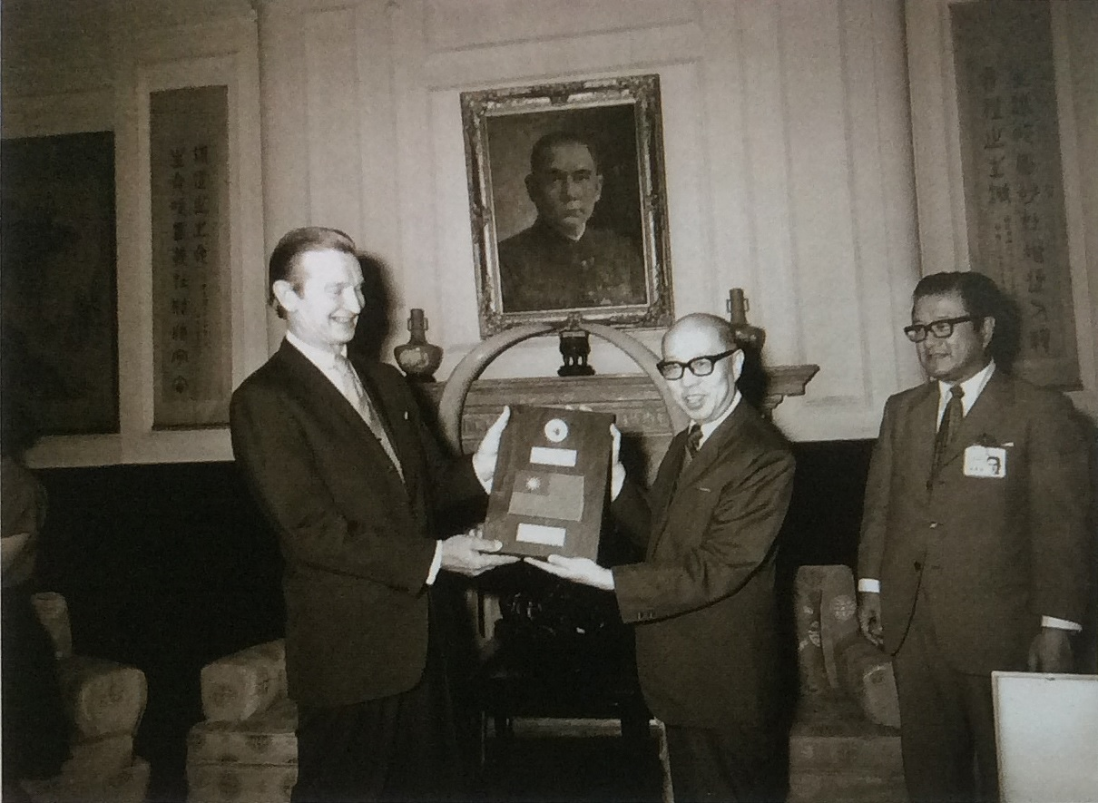 Vice President Yen Chia-kan accepts a moon rock from U.S. Ambassador Walter P. McConaughy. Also pictured is Minister of Education Chiang Yen-si (first from right).